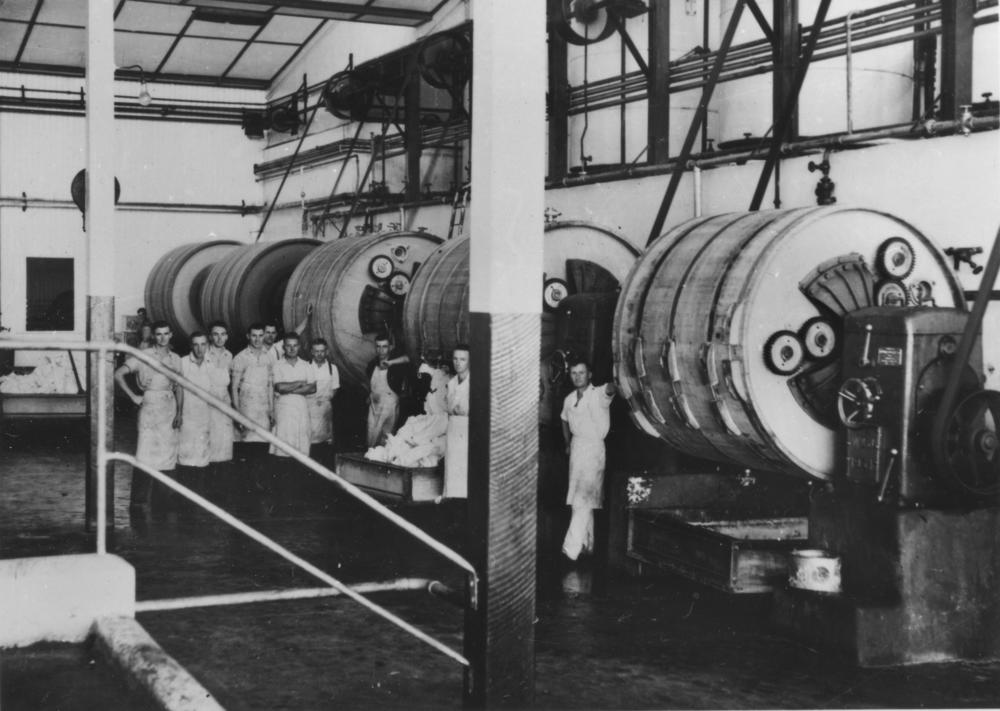 Workers inside the churn room of the butter factory, Kingaroy, 1938 Five large churns are in operation in the churn room of the Maryborough Co-operative Dairy Association factory.